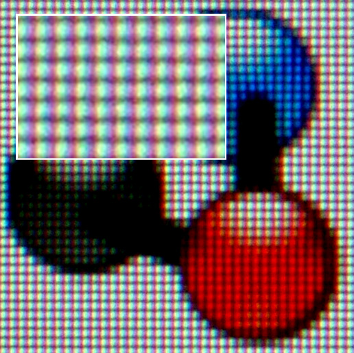 Enlarged view of the LCD color display of Image:Tablet HP TC-1100.jpg showing the pixel RGB arrangement. Based on Image:Nuvola apps kalzium.png, which is LGPL. Personal picture, all rights released